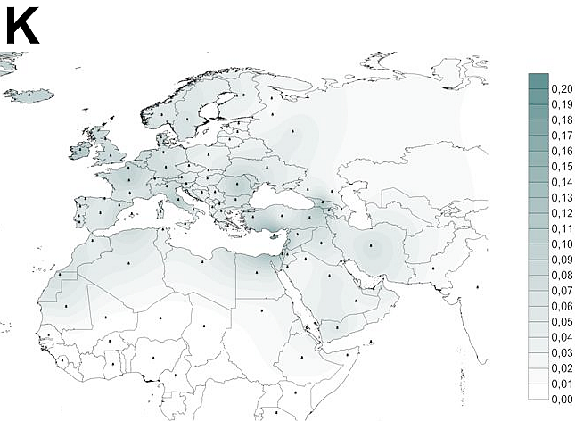 Frequency distribution maps for mtDNA haplogroups K. Maps created using Surfer and based on the data presented in Supplementary Table S2. Dots represent sampling locations used for the spatial analysis.